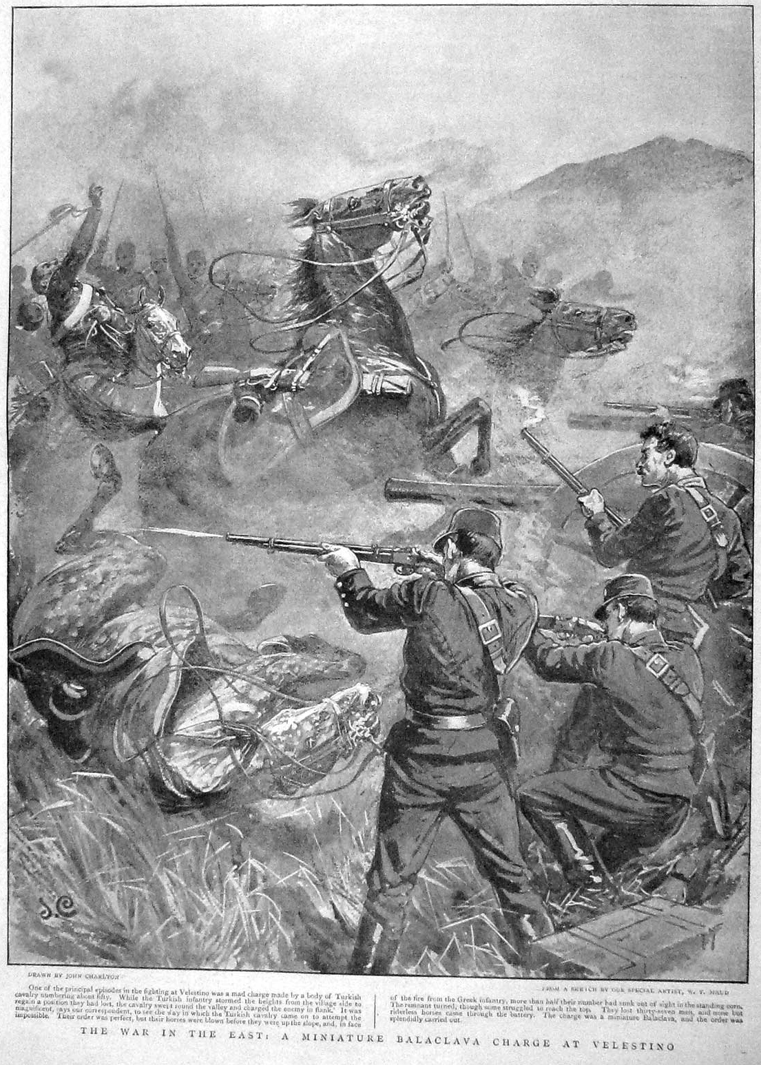 Scene from the Turkish cavalry charge in the Battle of Velestino, during the Greco-Turkish War of 1897